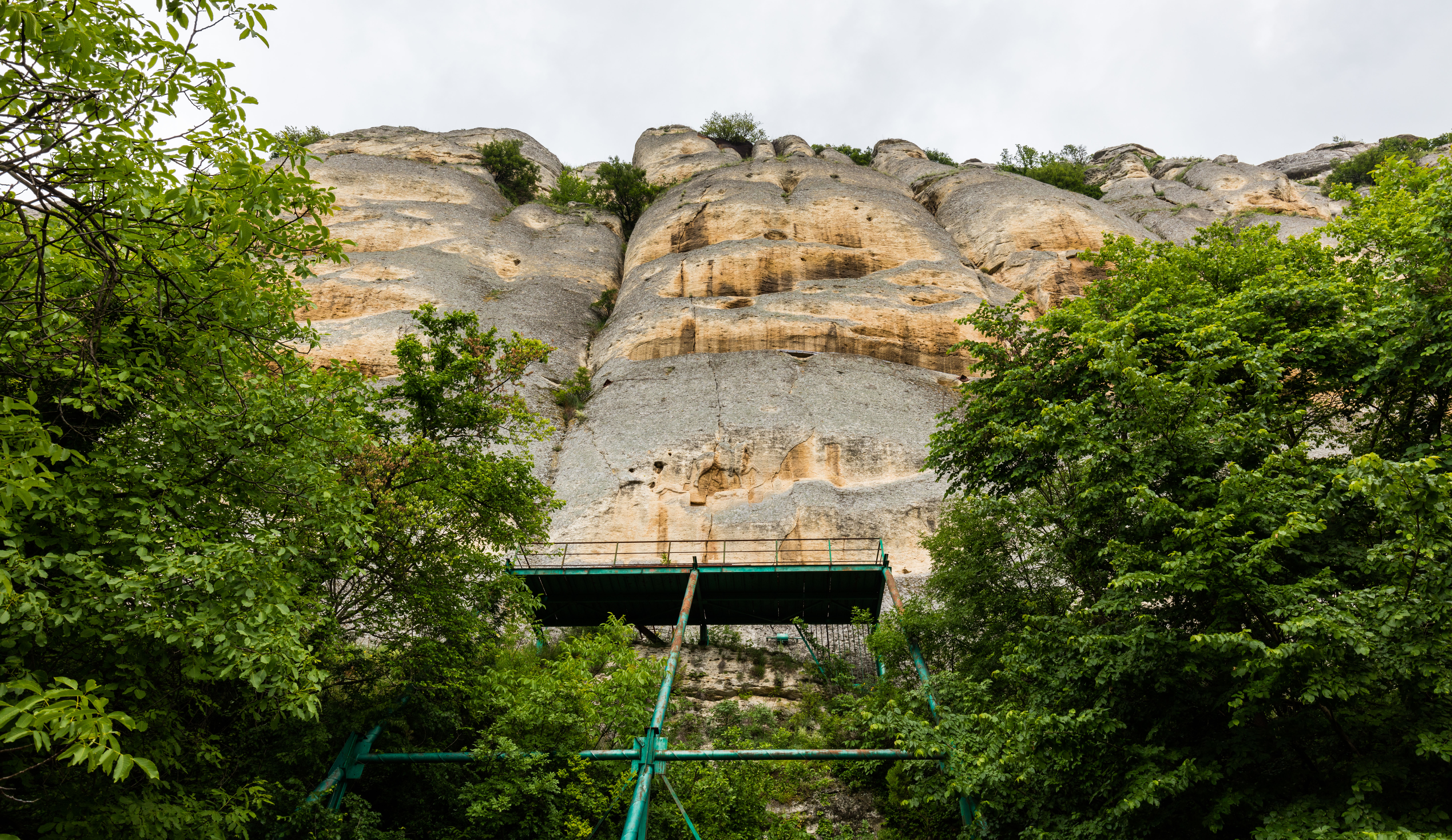 Madara Rider, National historical archaeological reserve, Bulgaria